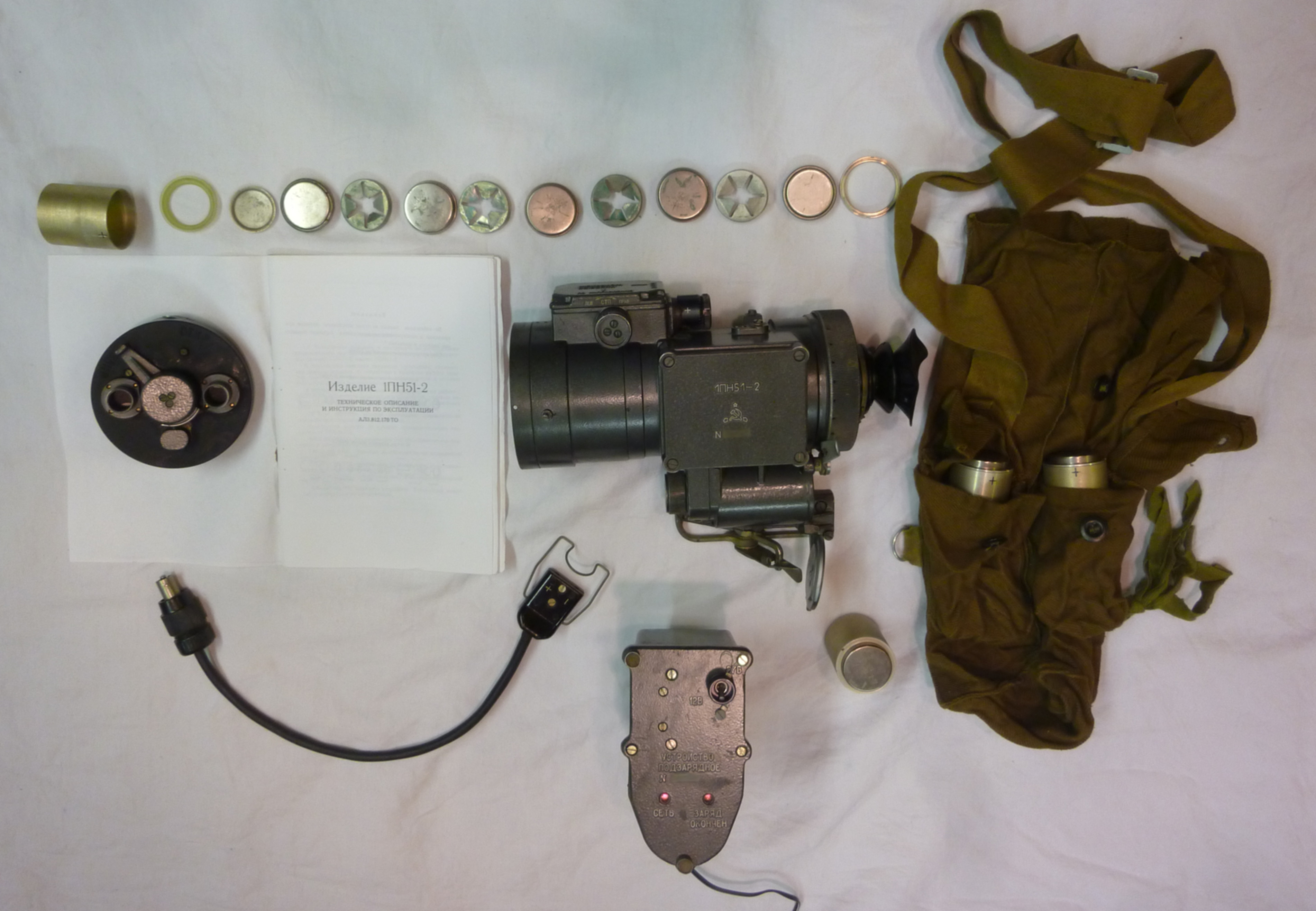 A 1PN51-2 with the aperture cover and battery pack removed, together with its manual, bag, battery packs (one of which is disassembled) and battery charger w. cable. NATO Foreign Weapons Training. (1/5).